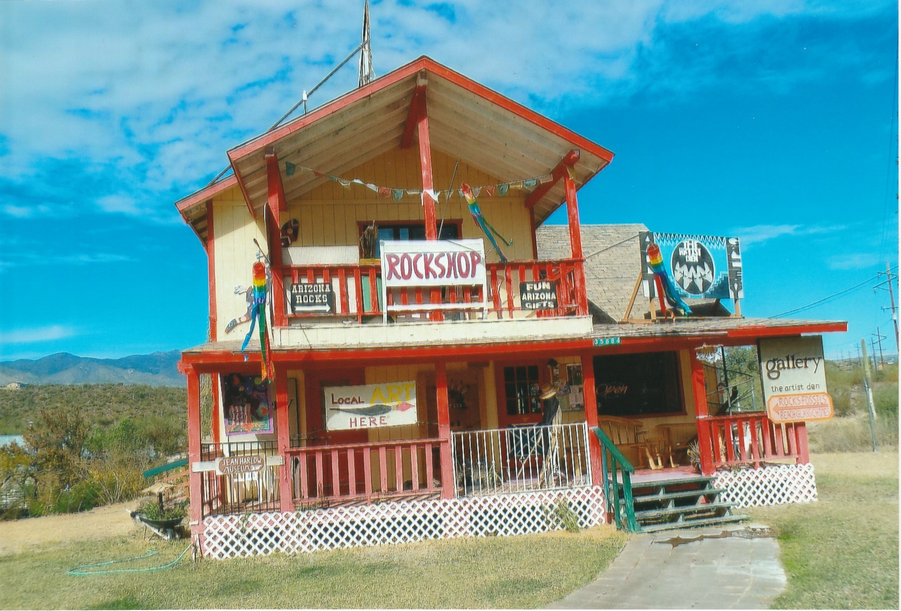 The old "A" frame house - The "A" frame house was built in the 1950's and serves as the "Jean Harlow Museuem".